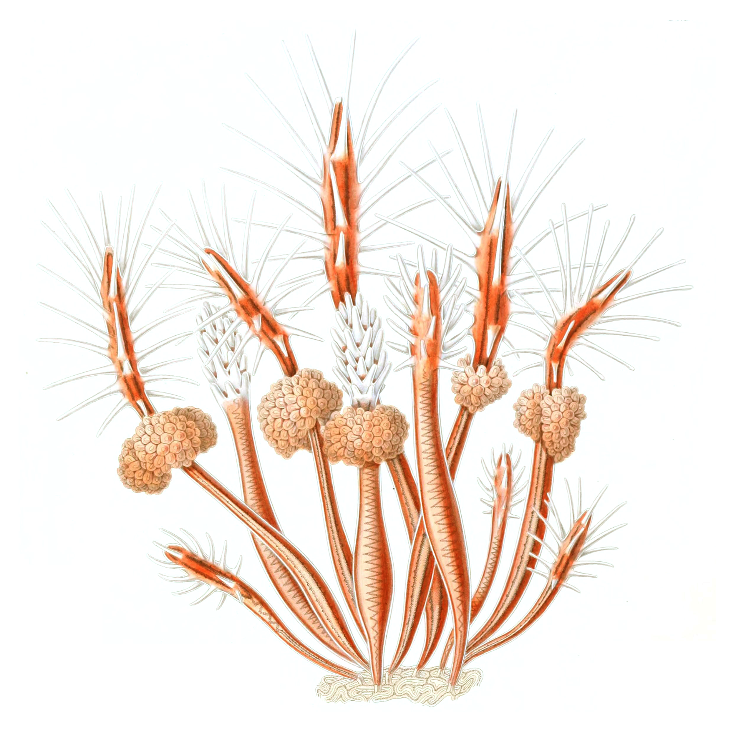 Painting of a male colony of Clava multicornis (=Clava squamata; Cnidaria: Hydrozoa: Hydractiniidae). The hydranths are seen, some fully extended, some in various states of contraction.